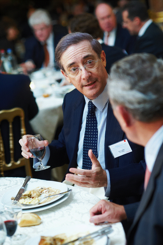 Spiros Latsis - Friends of Europe's State of Europe VIP roundtable and President's Dinner